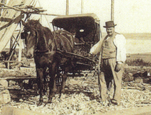 Ben Jackson, American Civil War Veteran, Nova Scotia